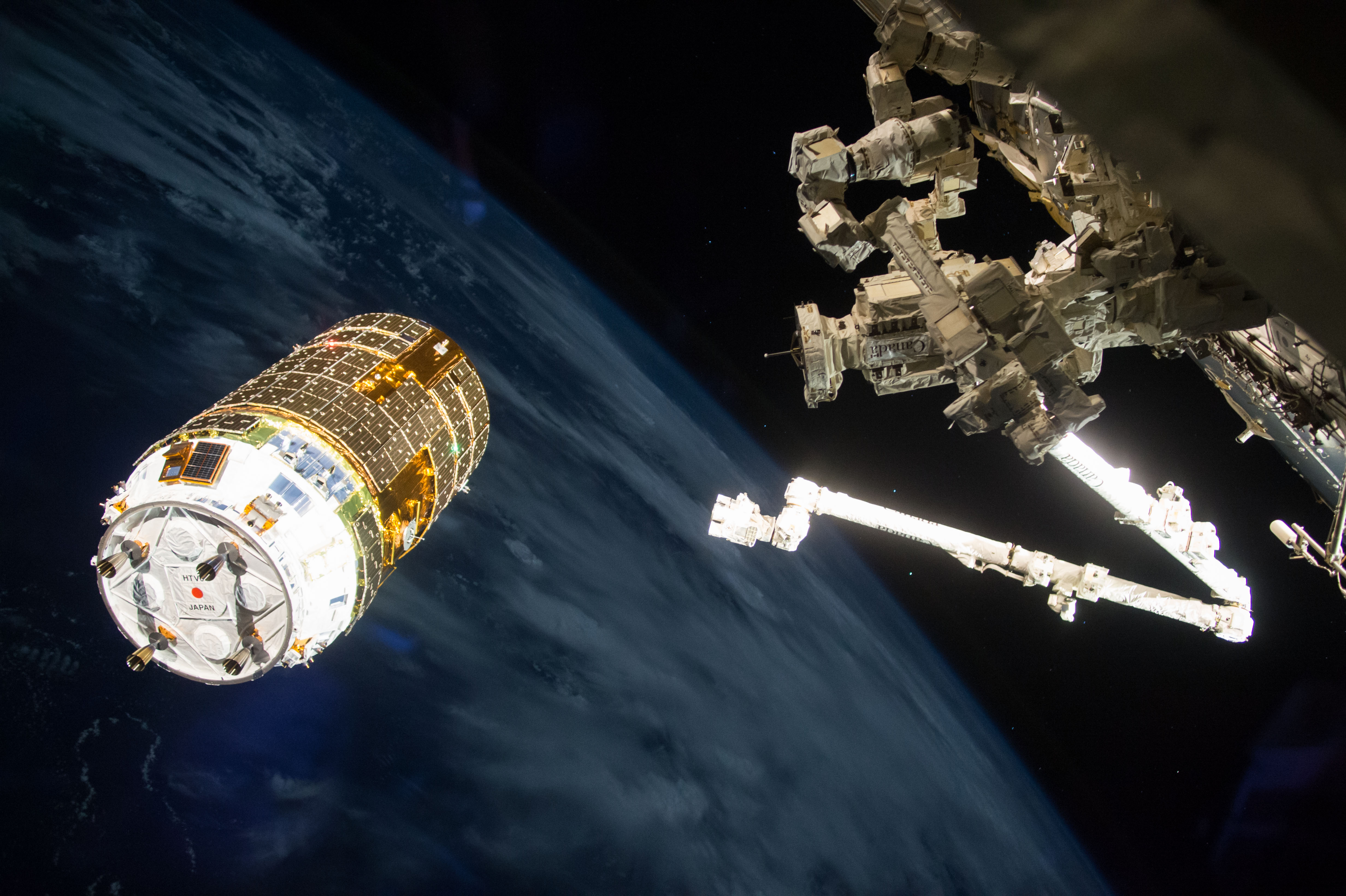 The Japanese HTV-6 cargo vehicle is seen during final approach to the International Space Station. HTV-6 launched from the Tanegashima Space Center in southern Japan on Friday, Dec. 9 and arrived at the space station on Tuesday, Dec. 13. The vehicle was loaded with more than 4.5 tons of supplies, water, spare parts and experiment hardware for the six-person station crew, including six new lithium-ion batteries and adapter plates that will replace the nickel-hydrogen batteries currently used on the station to store electrical energy generated by the station’s solar arrays.